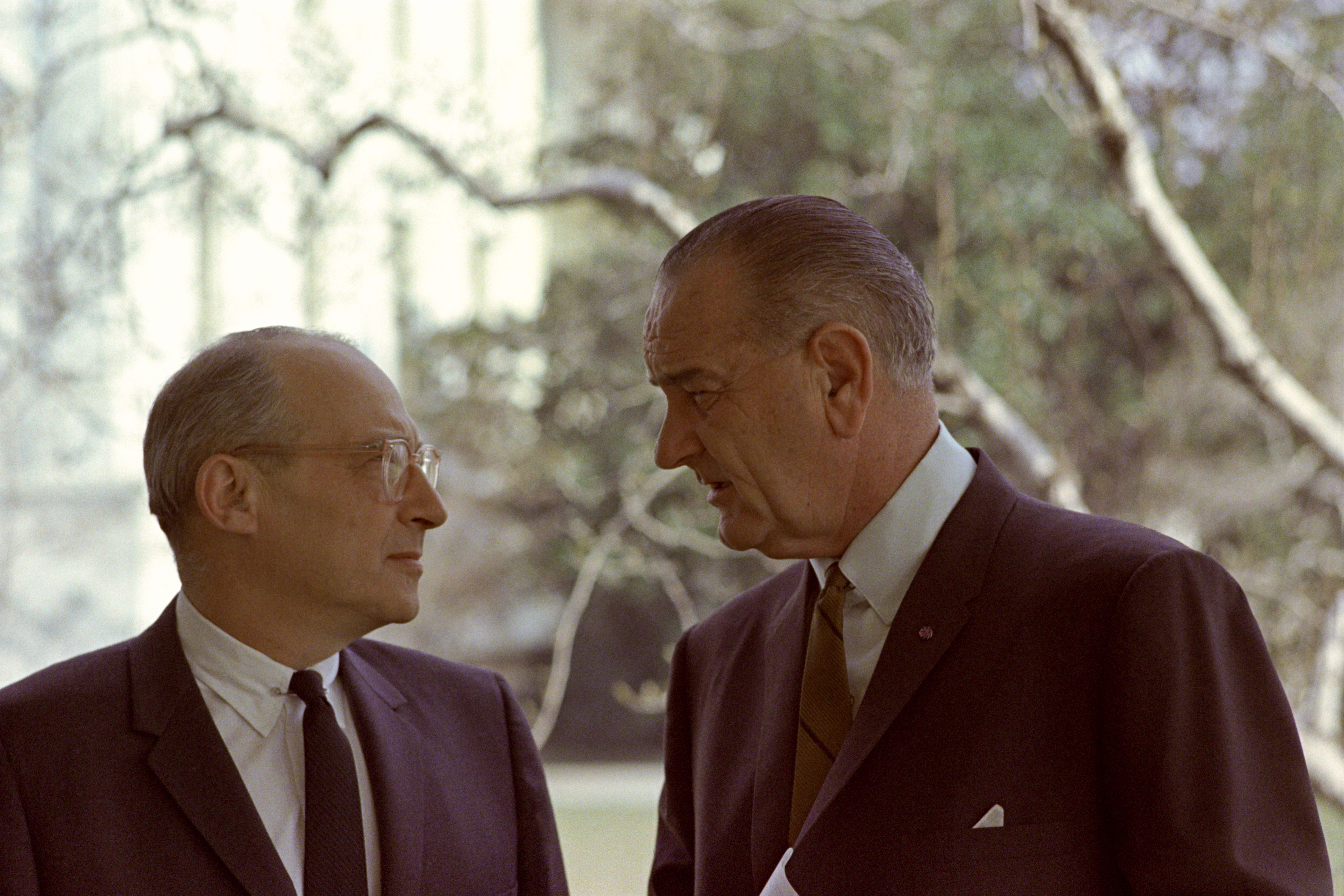 President Lyndon B. Johnson talks with Walter Rostow